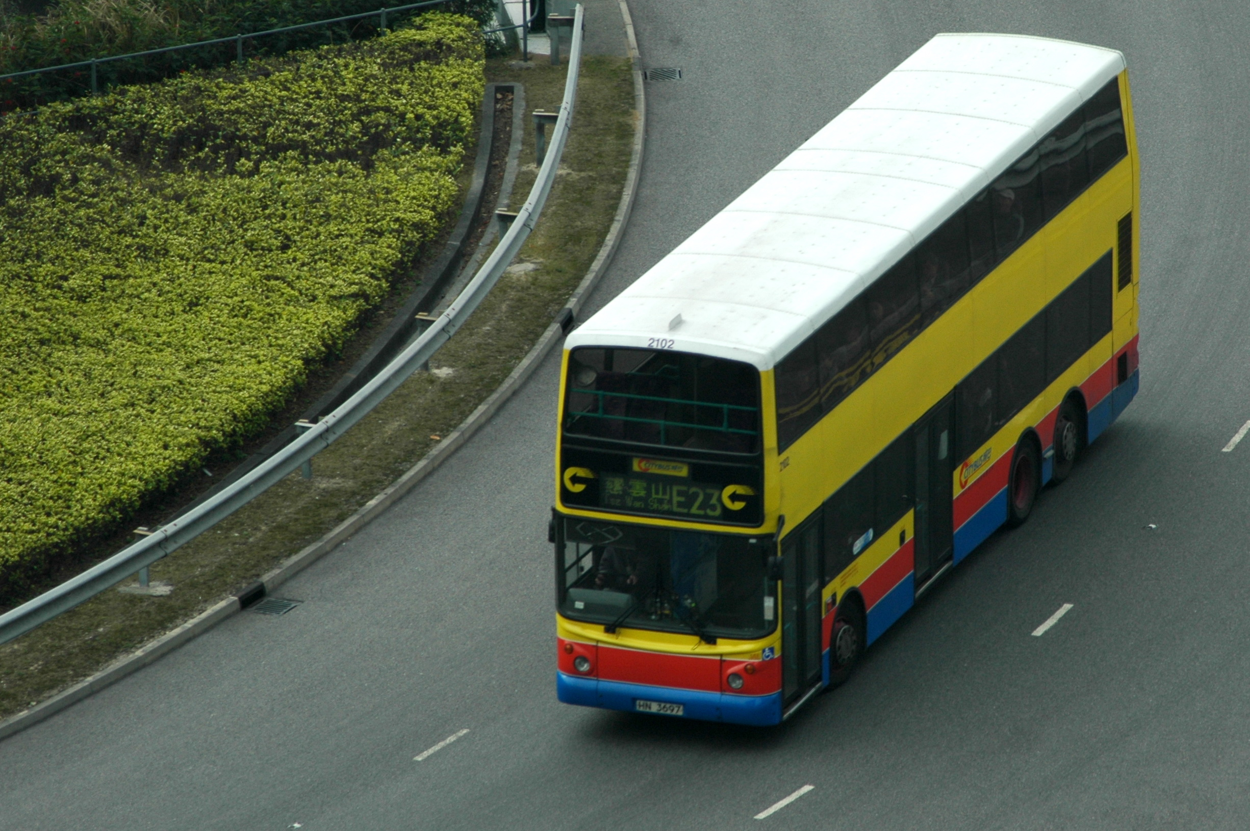 A Citybus Route E22 at the Tung Chung Eastern Exchange